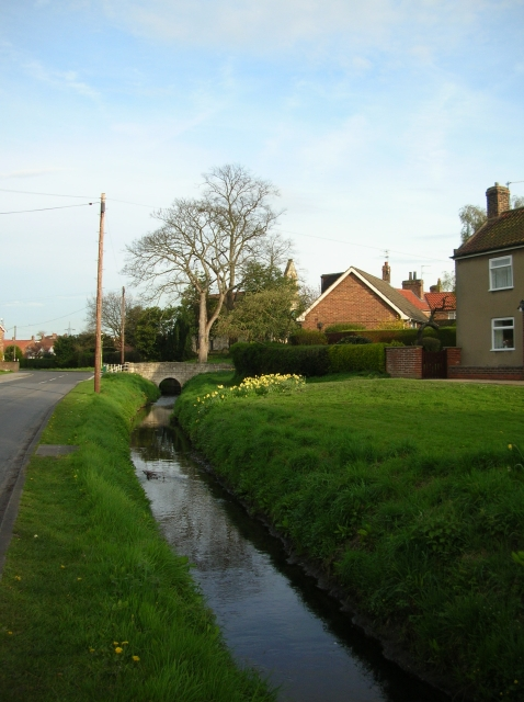 Osbaldwick Beck. Flowing round the loop in Osbaldwick is the beck. The church is just behind the tree.